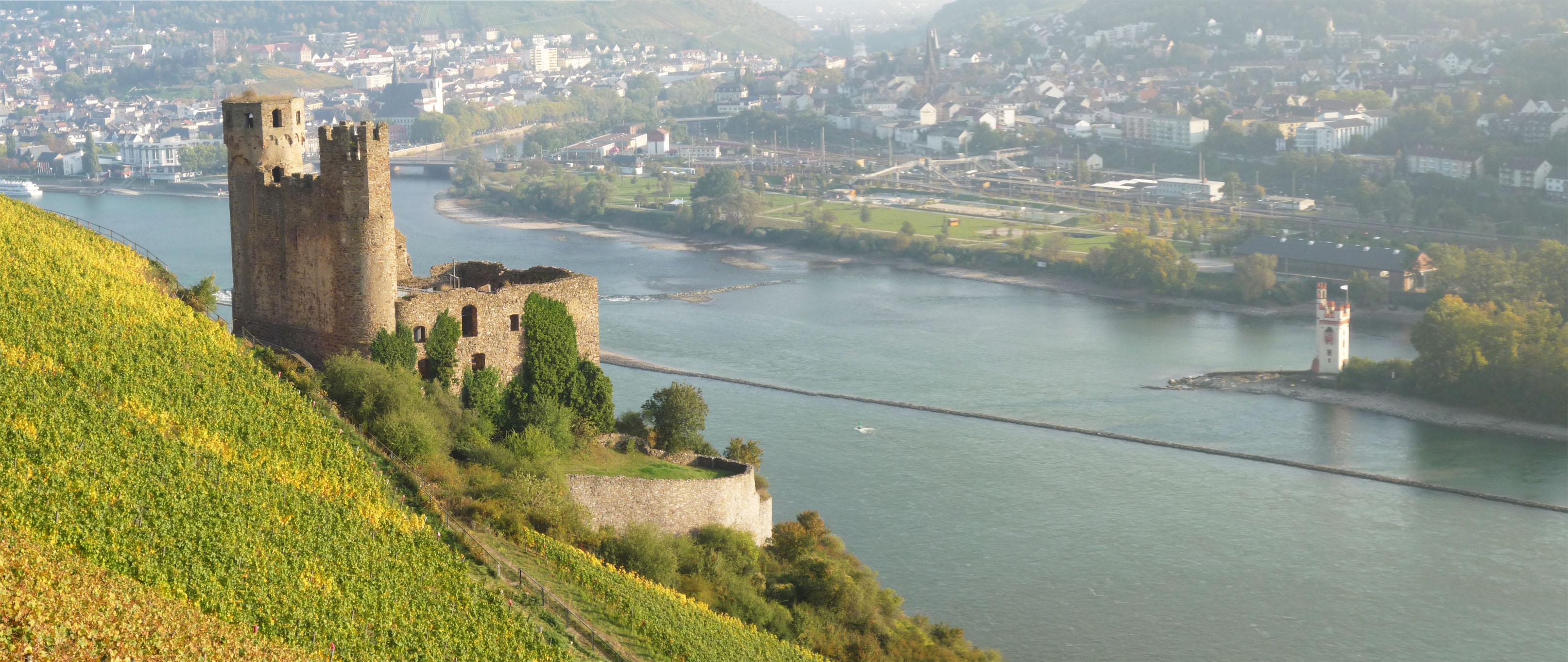 Rüdesheim am Rhein: Ruined castle Ehrenfels, view to Bingen am Rhein and the Mouse Tower on the island in the Rhine